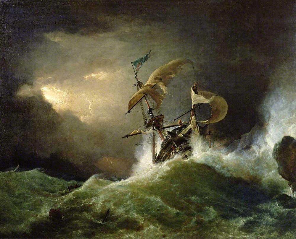 George Philip Reinagle - A First rate Man-of-War driven onto a reef of rocks, floundering in a gale